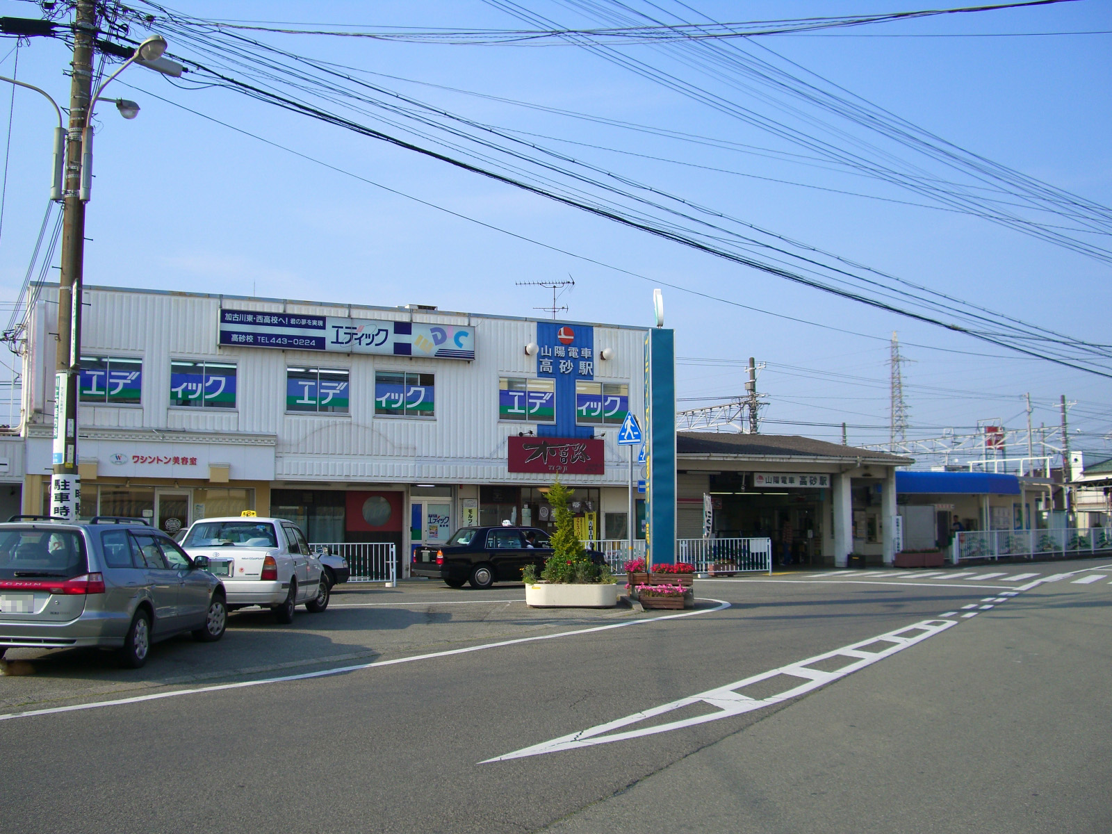 Sanyo Electric Railway Main Line Takasago Station Building